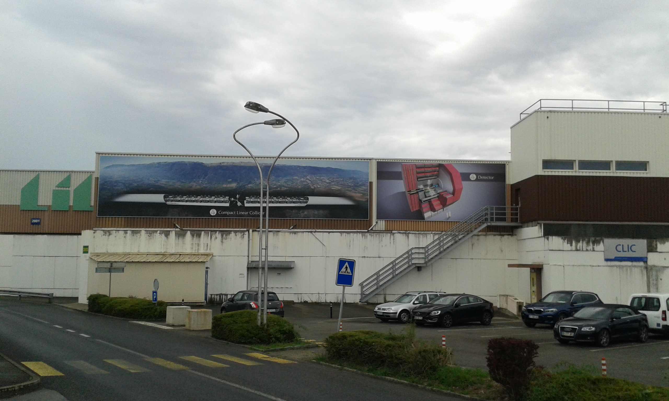 Depicted are buildings 2001, 2010 and 2013 on CERN's Meyrin campus. From 1989 until 2001, the buildlings housed the LEP Injector Linac (LIL). Afterwards, it was transformed to the CLIC test facility. The green LIL sign is still visible on the left side of building 2001.